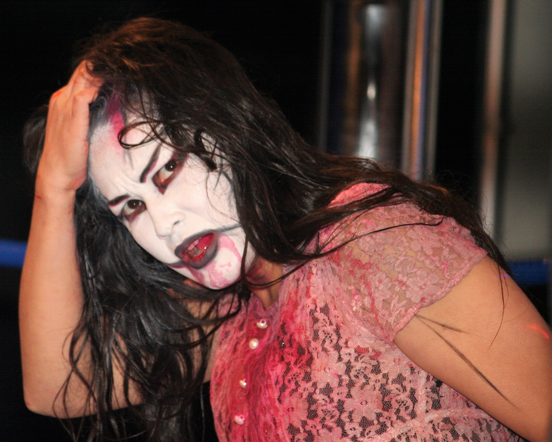 Su Yung at Queens of Combat, Gibsonville, NC